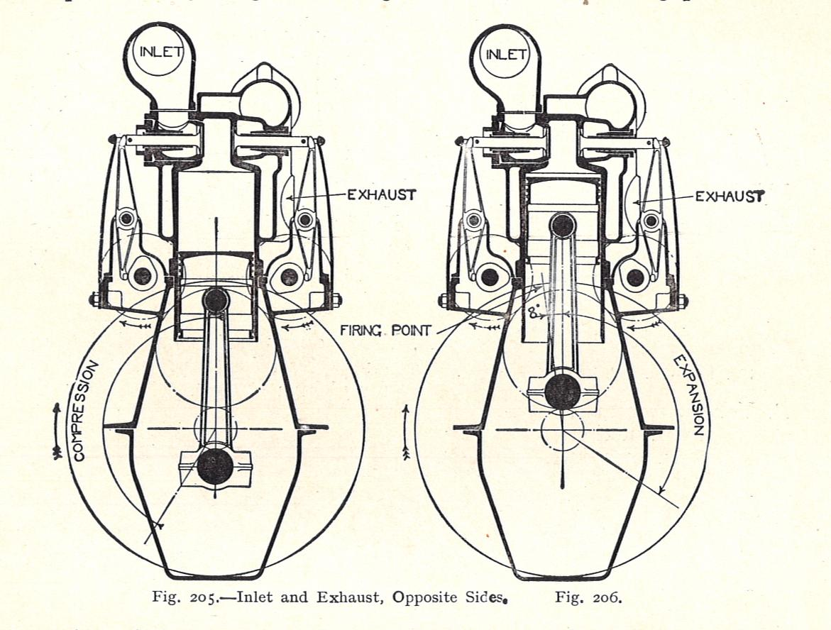 Fig. 205 Side-valve actuation on a Lanchester engine Note the use of Lanchester's characteristic flat valve springs, with separate rocker arms and camshafts on each side for inlet and exhaust. The combustion chamber above the piston is of the clerestory pattern. Scans from 'The Book of the Motor Car', Rankin Kennedy C.E., 1912 See other images from this source in Scans from 'The Book of the Motor Car'